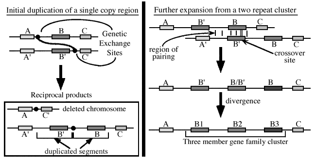 Unequal crossing over generates gene families. The left side illustrates an unequal crossing over event and the two products that are generated. One product is deleted and the other is duplicated for the same region. In this example, the duplicated region contains a second complete copy of a single gene (B). The right side illustrates a second round of unequal crossing over that can occur in a genome that is homozygous of the original duplicated chromosome. In this case, the crossover event has occurred between the two copies of the original gene. Only the duplicated product generated by this event is shown. Over time, the three copies of the B gene can diverge into three distinct functional units (B1, B2, and B3) of a gene family cluster.